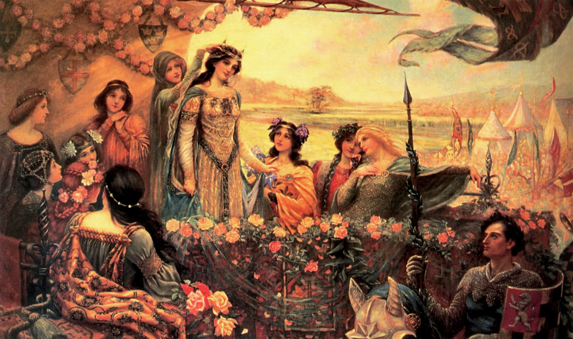 Lancelot and Guinevere